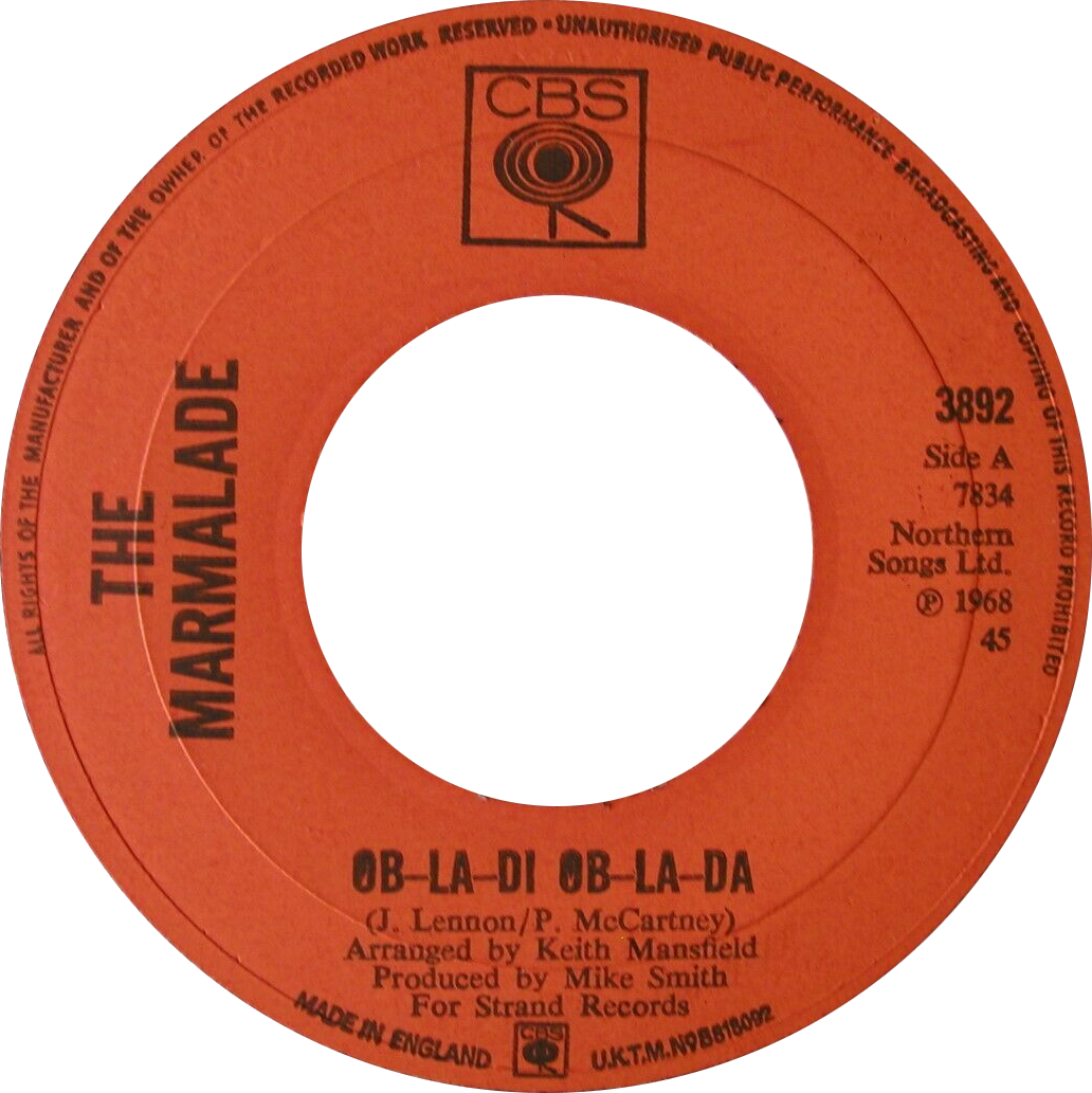 One of side-A labels, with probably the large centre hole, of the UK vinyl single "Ob-La-Di, Ob-La-Da" by Scottish band The Marmalade. Originally sung by The Beatles and penned by John Lennon and Paul McCartney